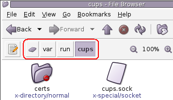 Example of "breadcrumbs" in Nautilus - modified from the original by outlining the actual "breadcrumbs" part of the image - as it's not intuitive if you've never worked with Nautilus before.